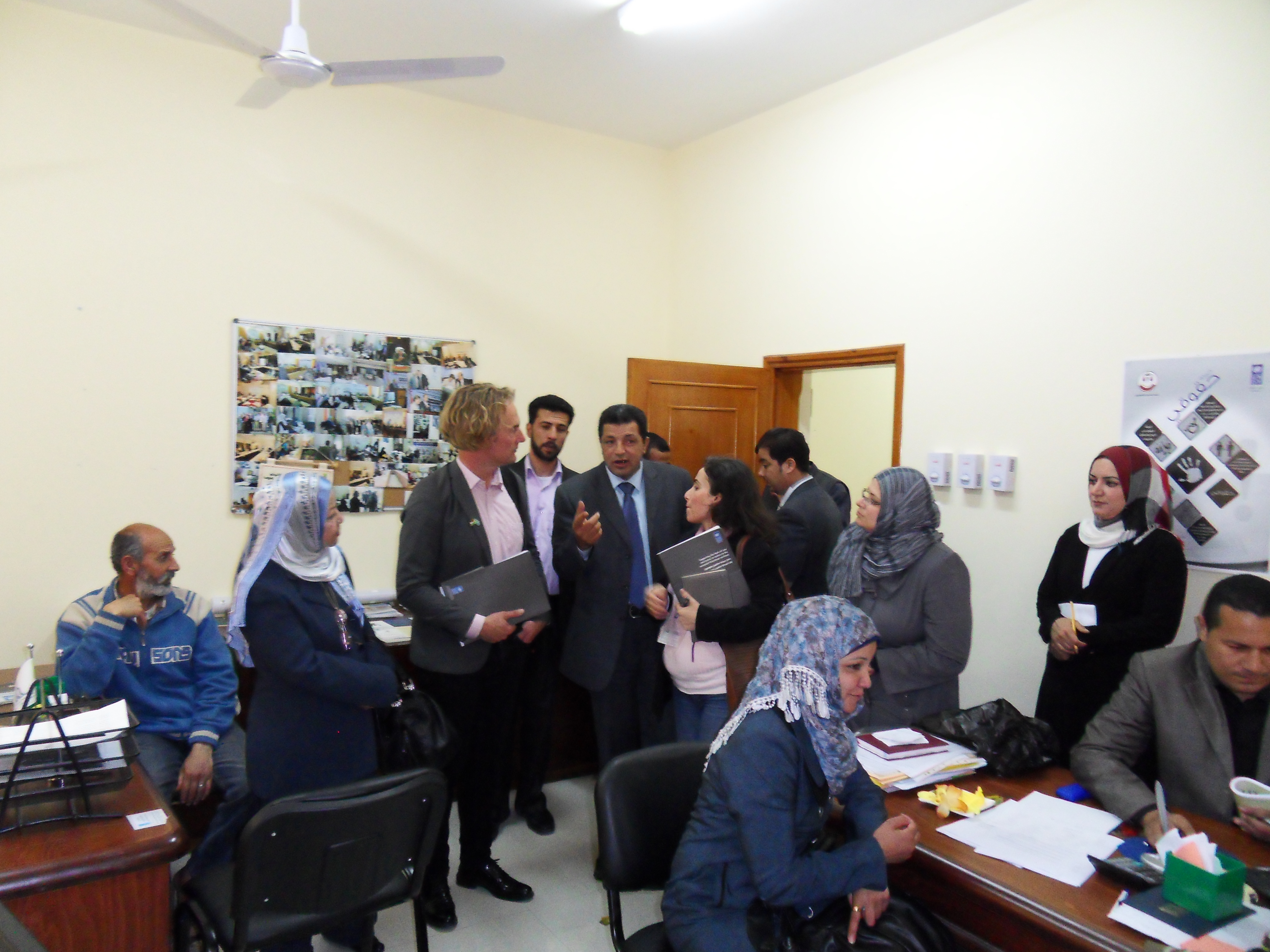 Mr Fredrik Westerholm from Consulate General of Sweden In Jeruslaime in his visit to The Palestinian Bar Association in Gaza Strip